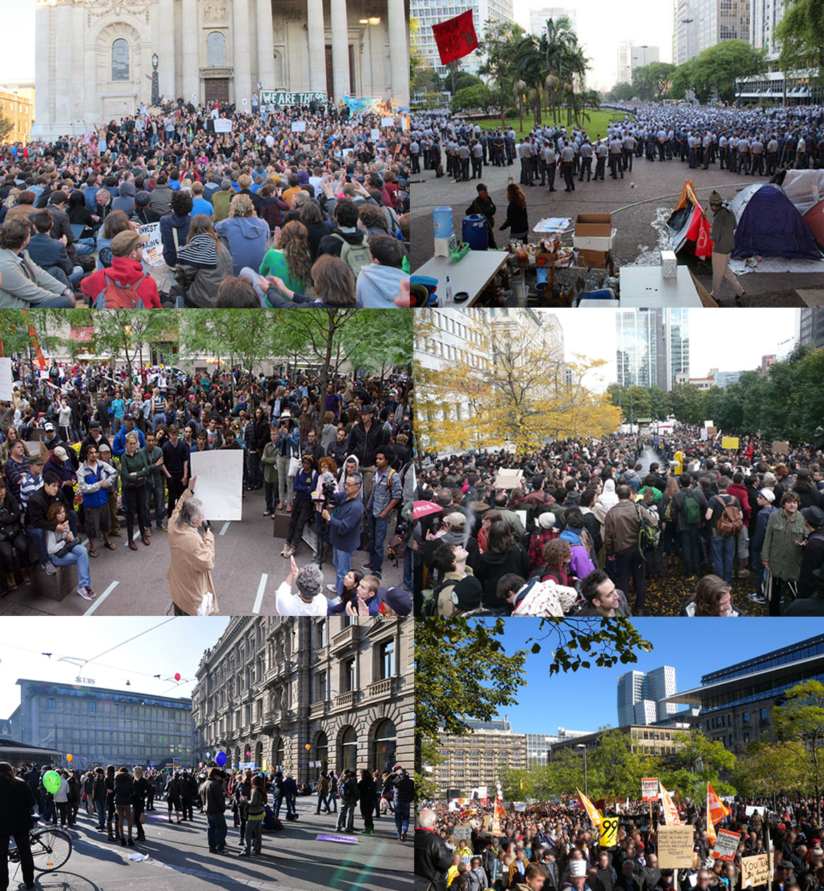 A combination for the pictures of october 2011 global protests (Note: most of the pictures was taken in 15 october, but not all of them), the place where the pictures have been taken from left to right and above to below: London, UK - São Paulo, Brazil - Wall street, Newyork city, USA - Montreal, Canada - Zürich, Switzerland - Frankfurt, Germany.